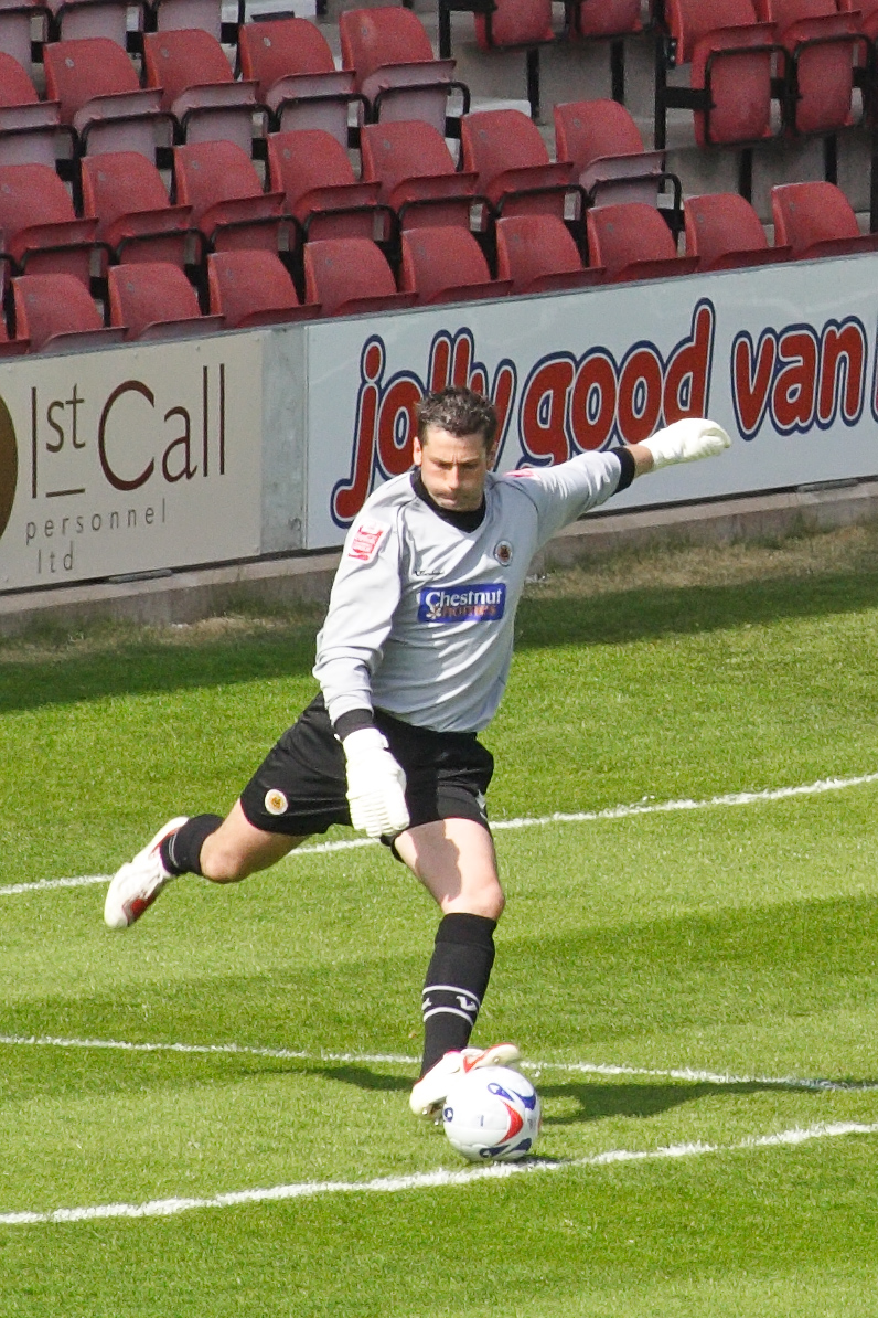 Andy Marriott in action for Boston United